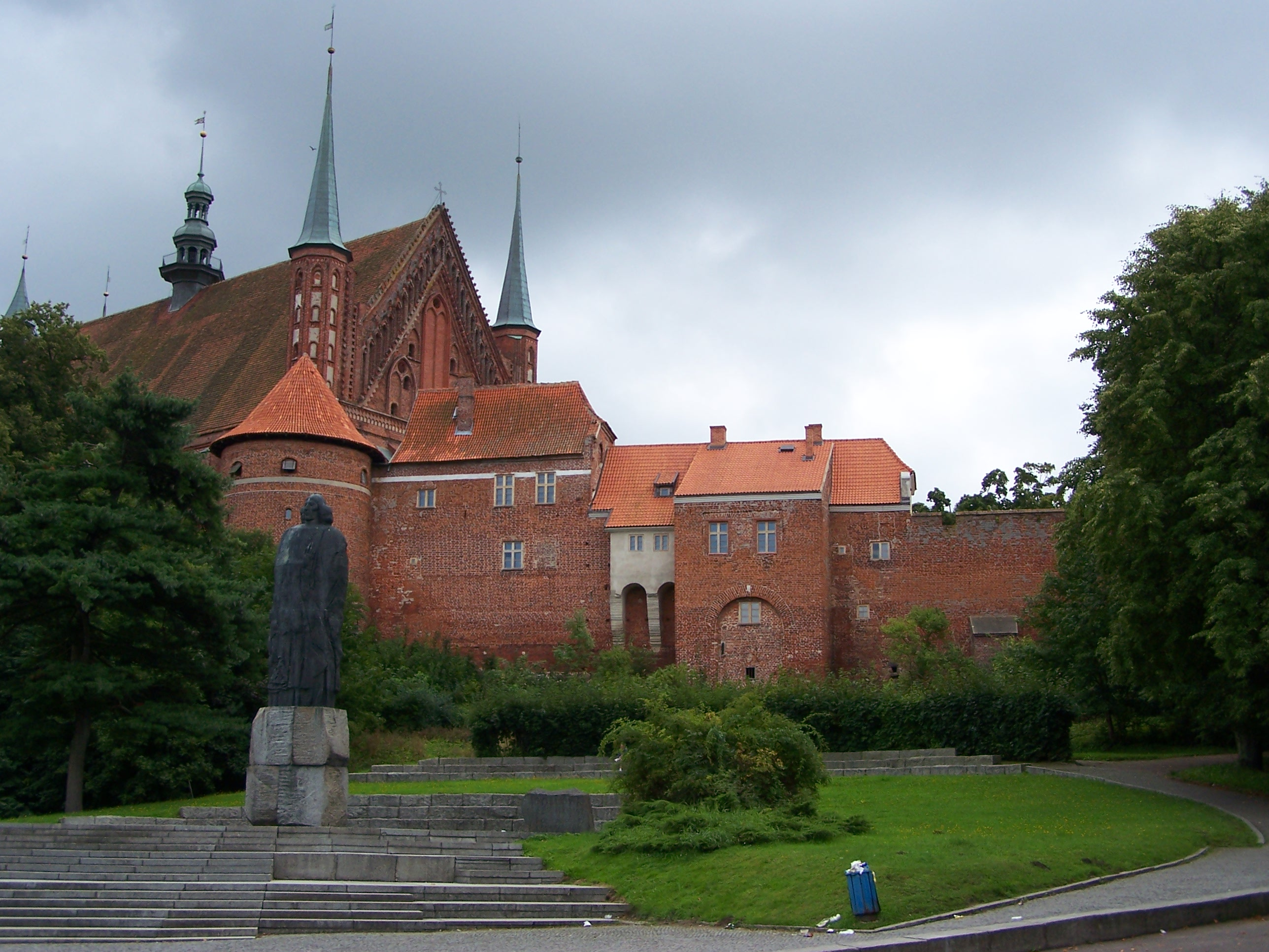 Cathedral and fortification in Frombork (Poland).